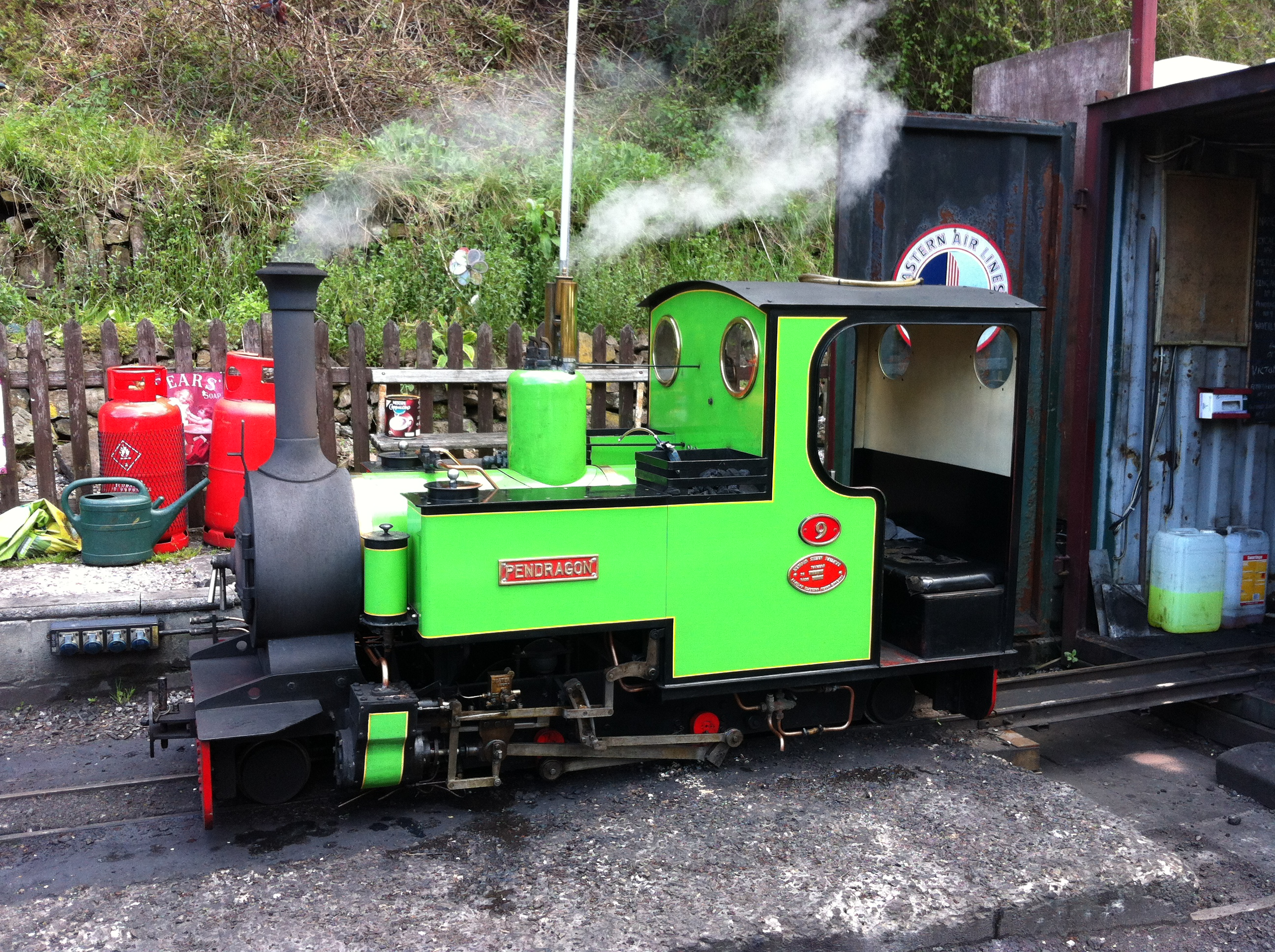 Pendragon on the Rudyard Lake Steam Railway